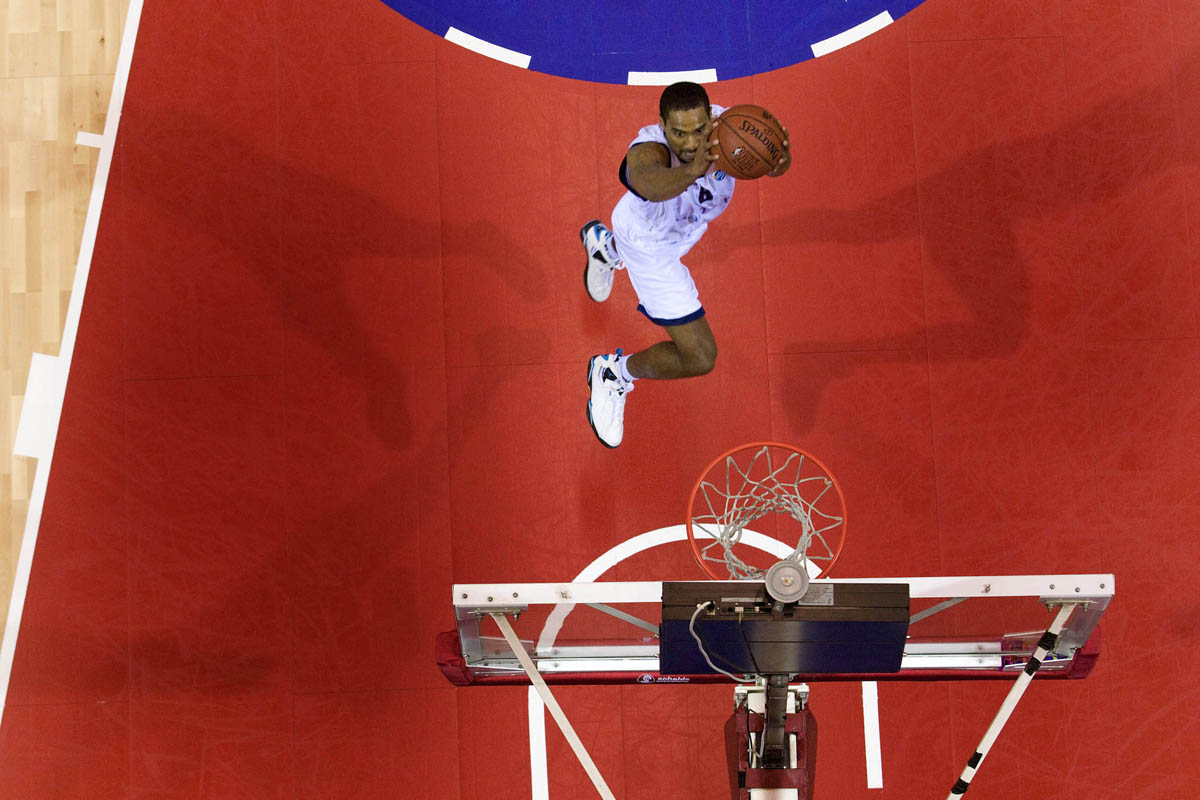 my favorite - see the three shadows ?